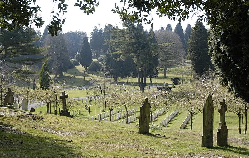 General view of Aldershot Military Cemetery looking west, Photo taken on 27th March 2007 by Mark Mitchell